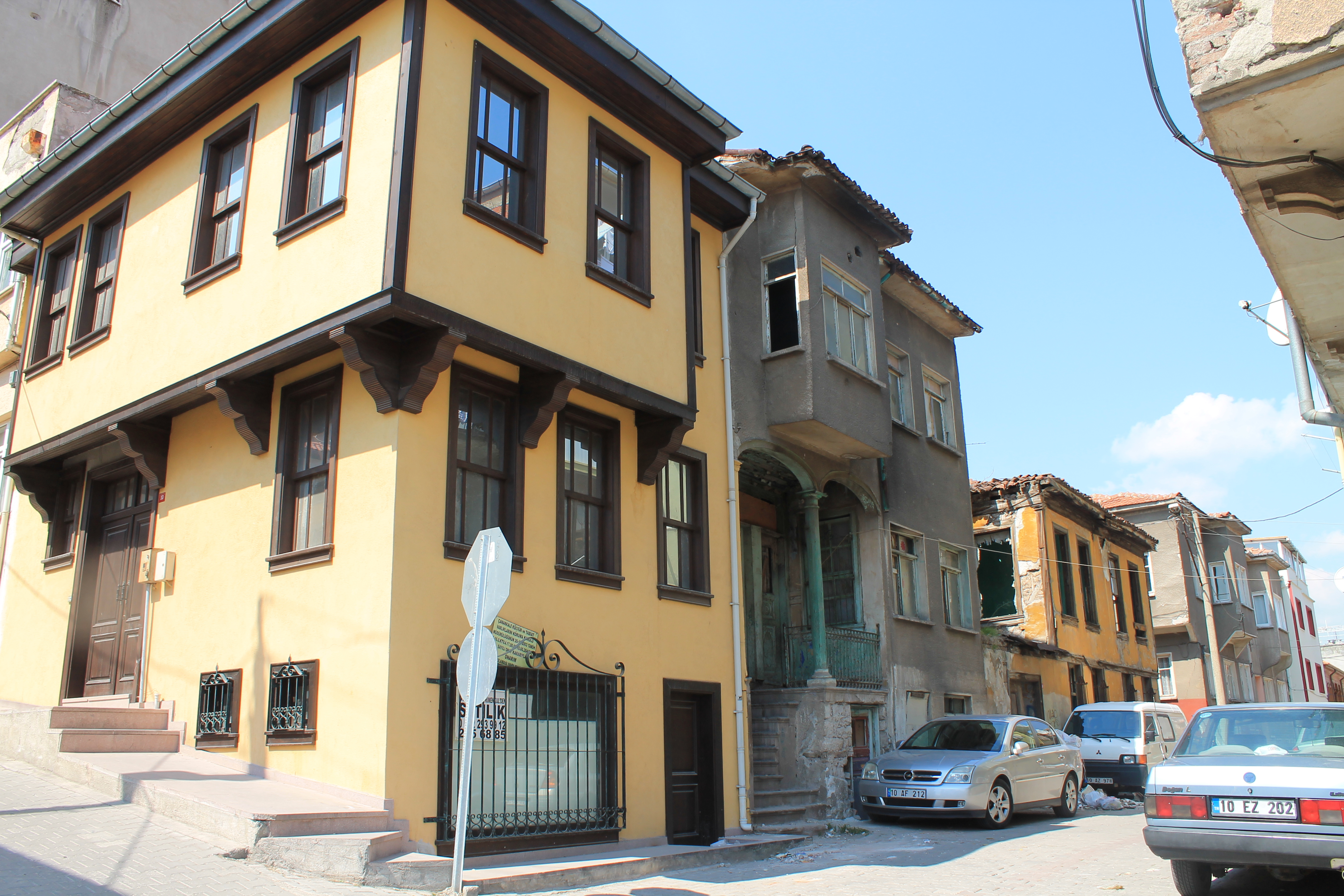 Ottoman Architecture in Balıkesir